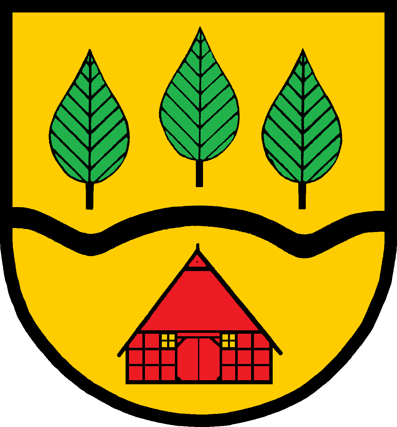 Coat of arms of the municipality Grabau in Schleswig-Holstein, Germany.